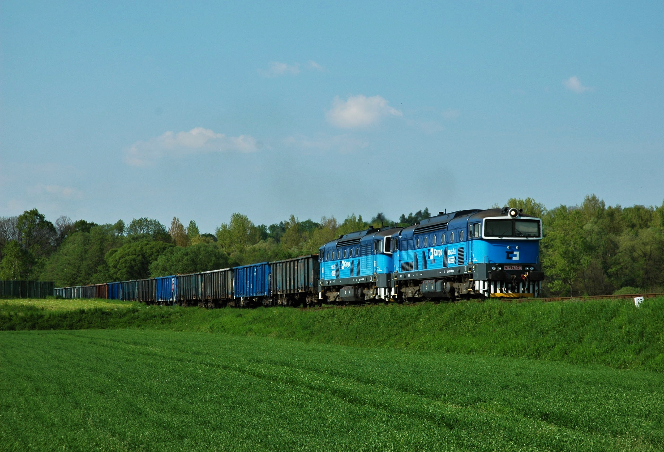 Locomotives 753.759+758 with wood block train for Biocel Paskov pulp mill; between Paskov and Biocel Paskov závod